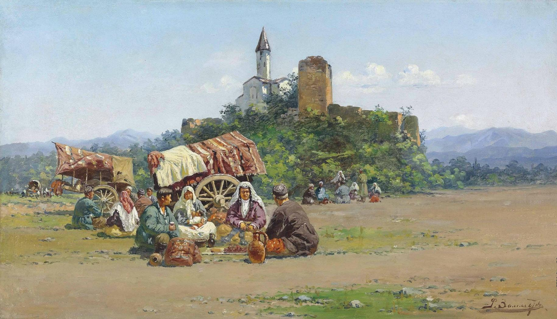 Richard Zommer. Rest in the Caucasus. Oil on canvas. 36.8 x 64.4. Private collection.